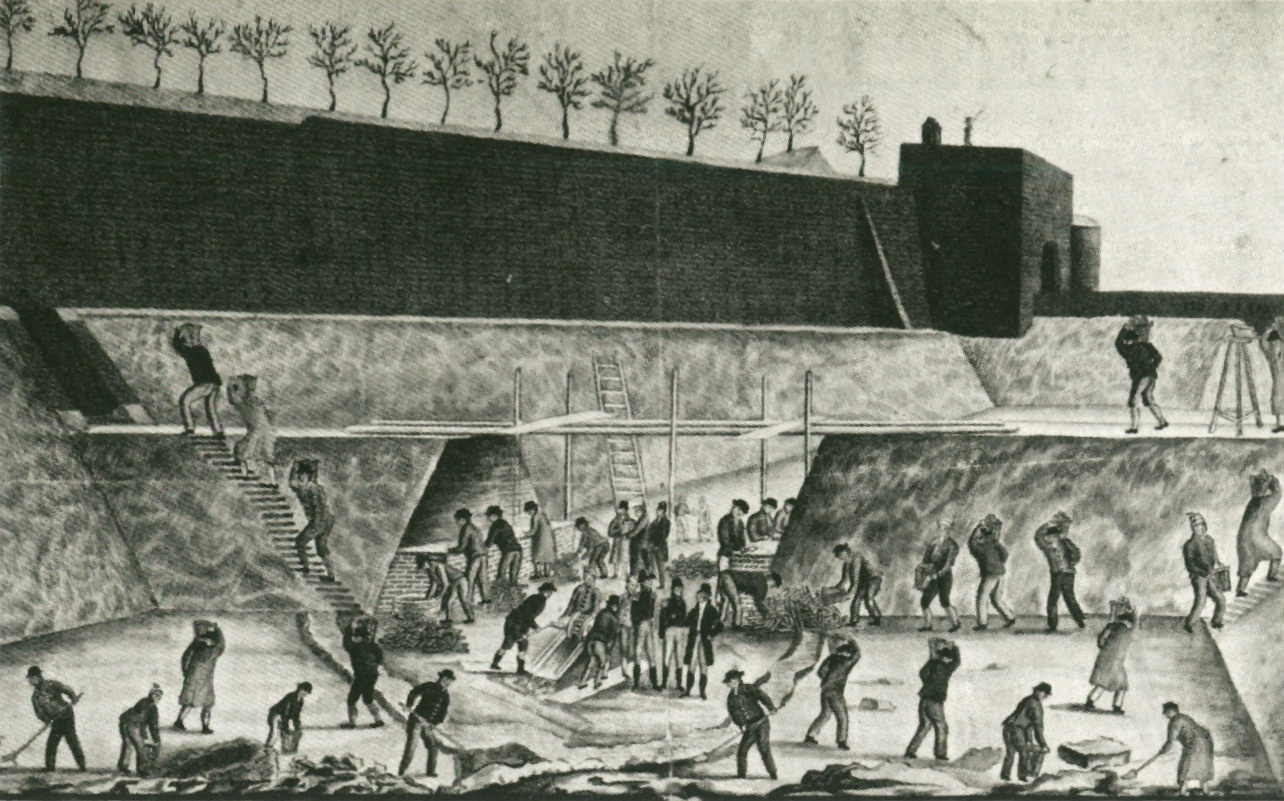 Maastricht, the Netherlands. Construction of the Nieuwe Bossche fronten, the northern section of the former fortifications of Maastricht. Drawing by unknown draughtsman, c. 1820